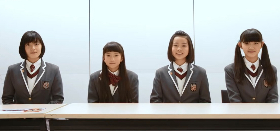 Sakura Gakuin Exclusive Interview with Japanese Station